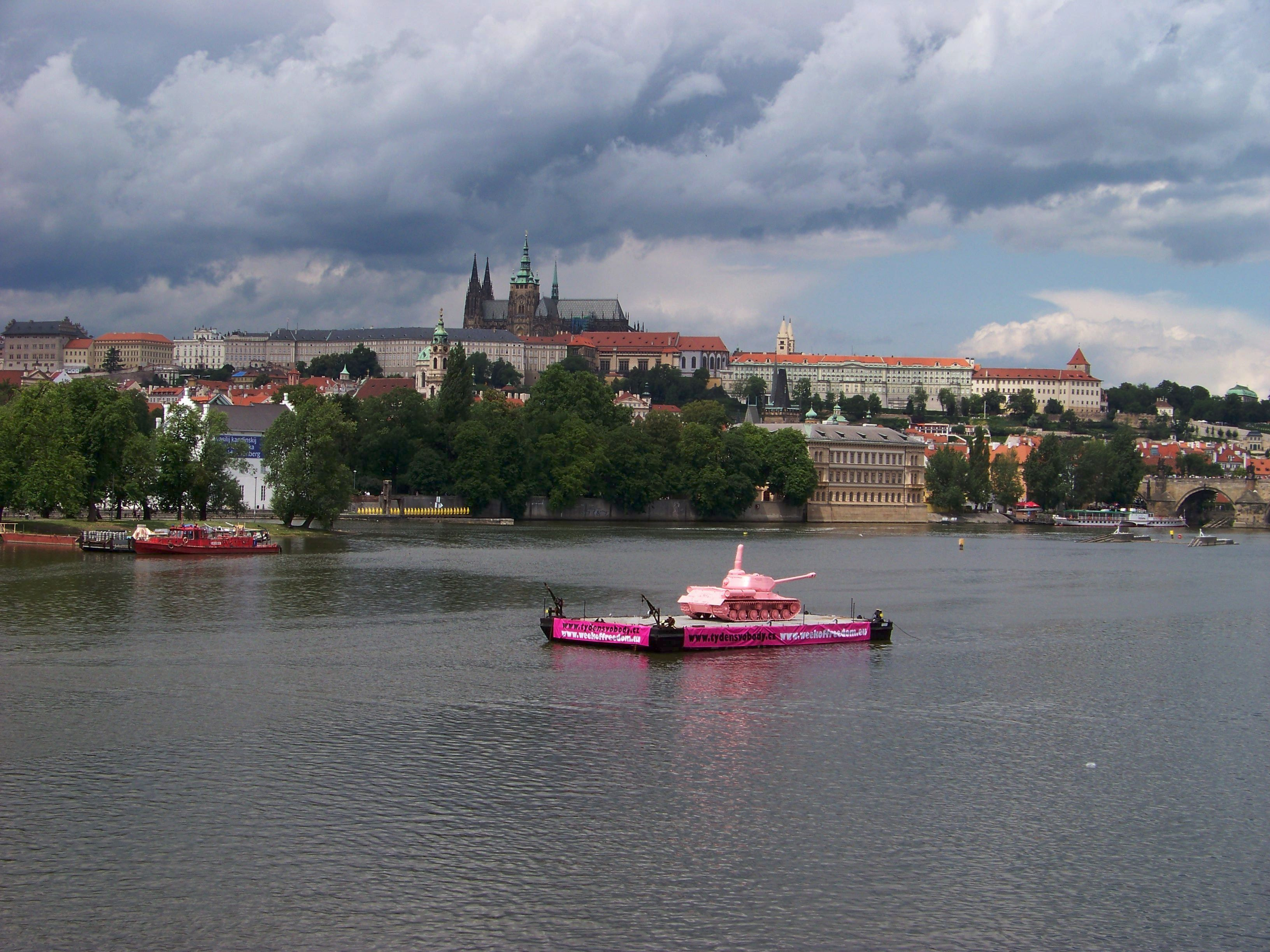 Prague-Old Town, the Czech Republic. The Pink Tank by David Černý on the Vltava river, a view of Malá Strana and Prague Castle.